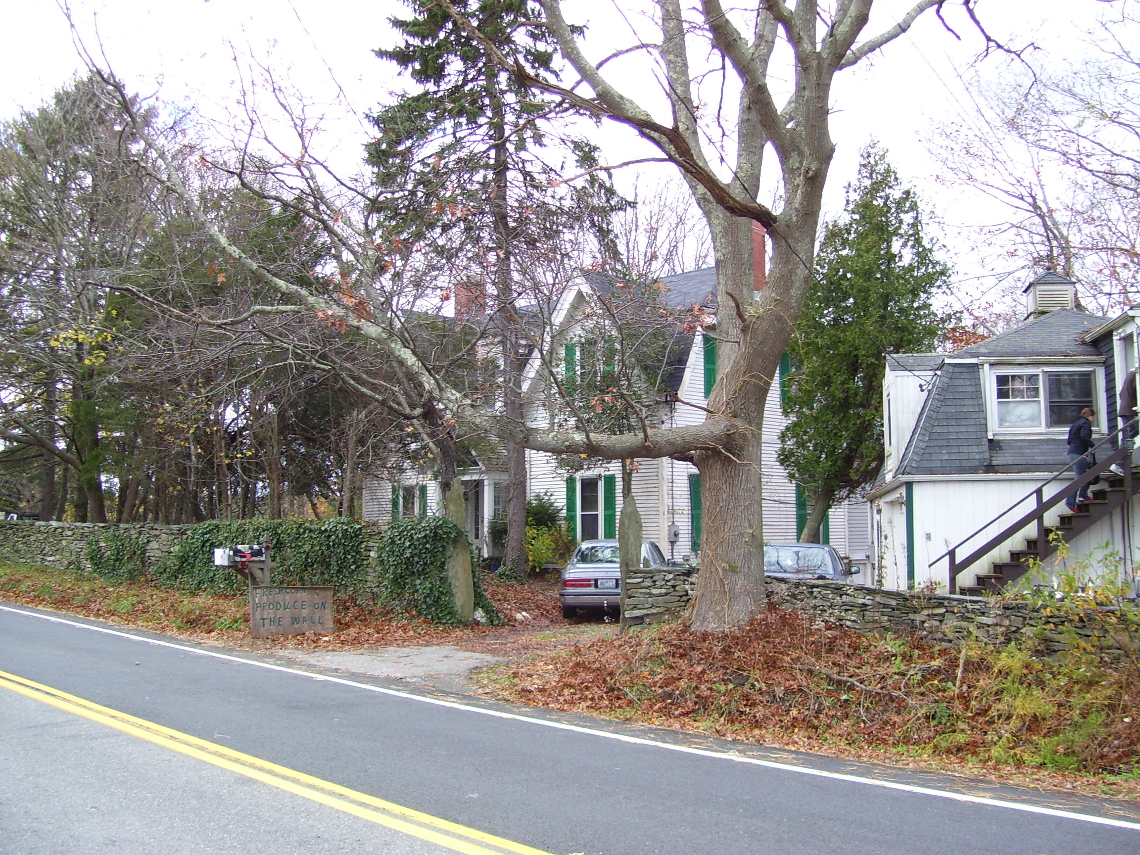 This is my 2008 photo of Oak Glen in Portsmouth, Rhode Island, USA.